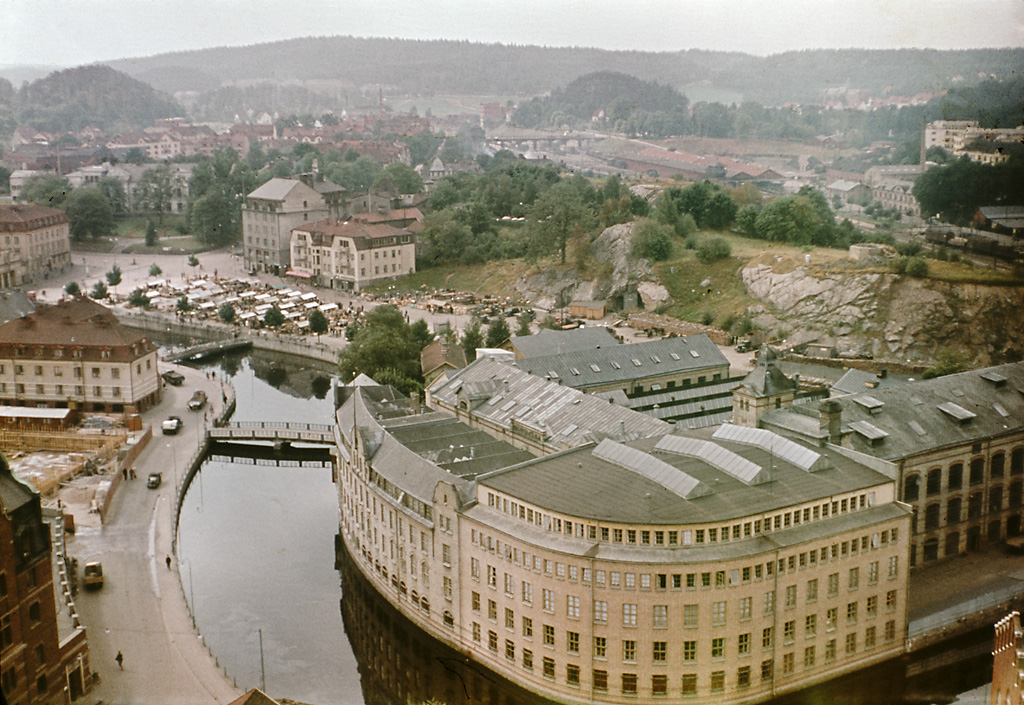 View of Borås from Caroli church towars west. To the right is Borås textile factory.